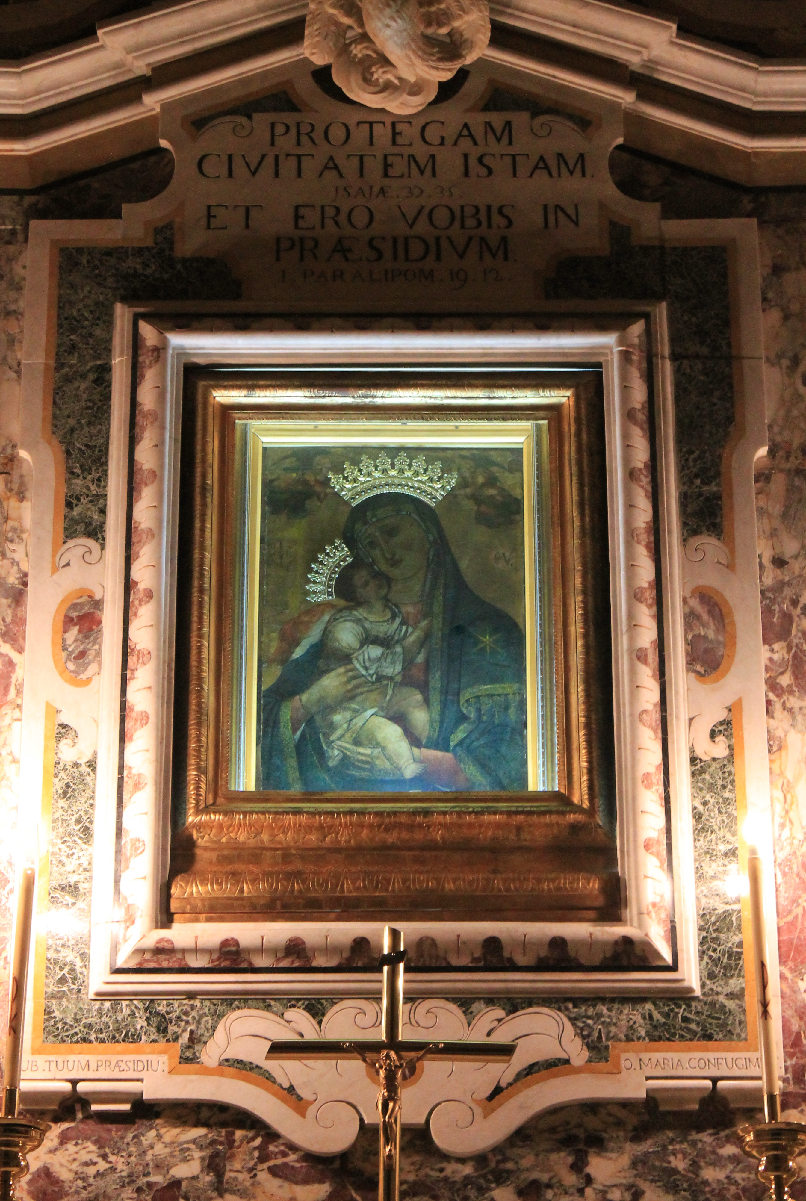 Madonna dello sterpeto of Barletta